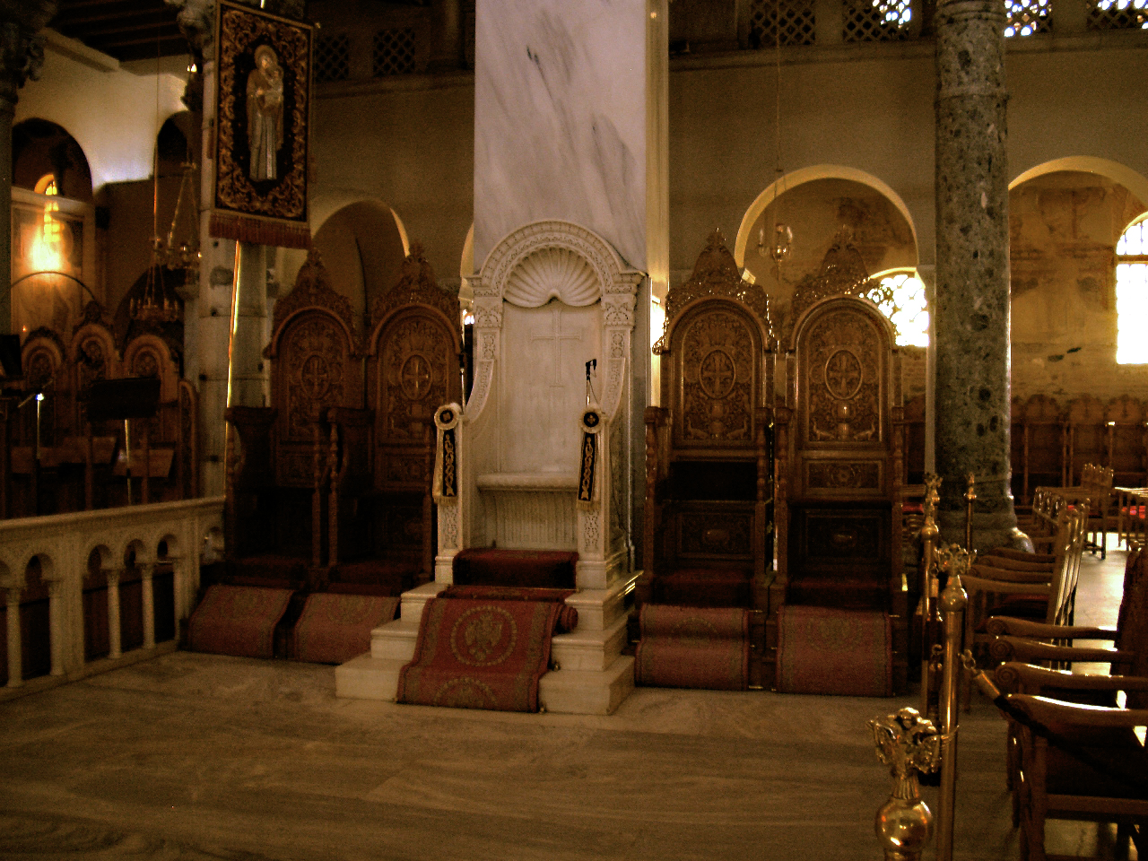 Church of Saint Demetrius Patron Saint of Thessaloniki. Tribunes